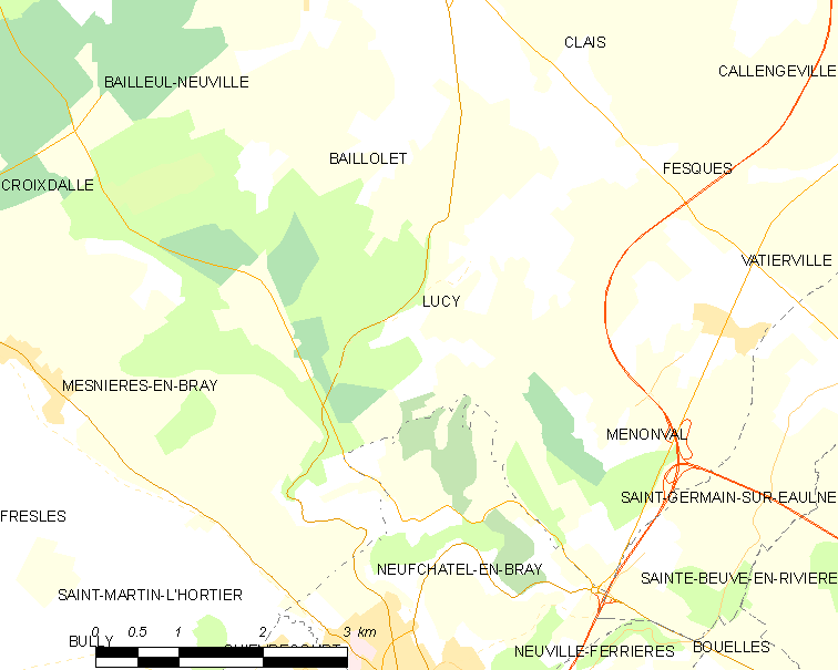 Map of French municipality Lucy